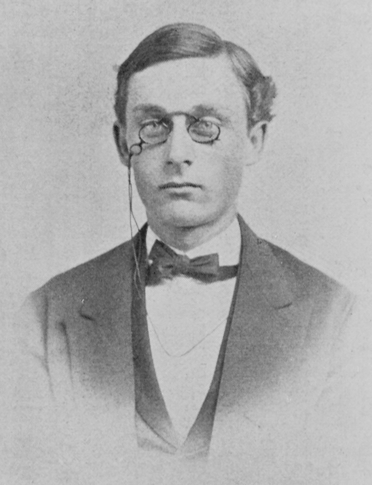 J. Havens Richards as a student at Boston College, between 1869 and 1872